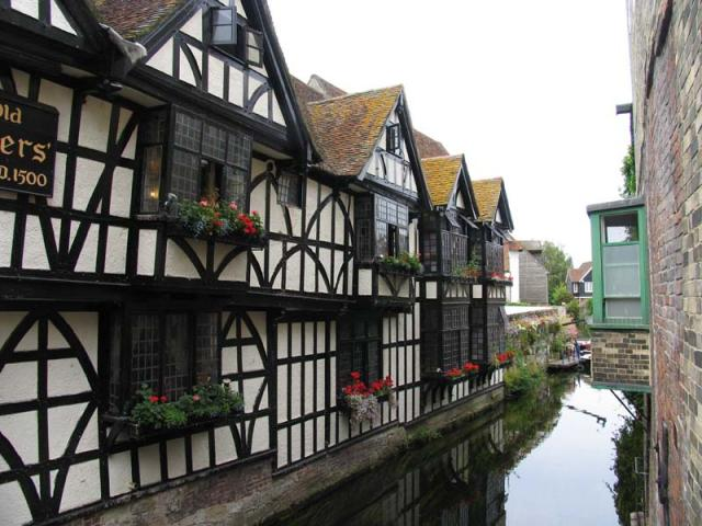 Canterbury. A section of one of the channels of the River Stour that flows through the centre of the town next to this 1500 building, now an Italian Restaurant. This scene is situated more or less in the centre of the square. This was taken looking more or less north east.